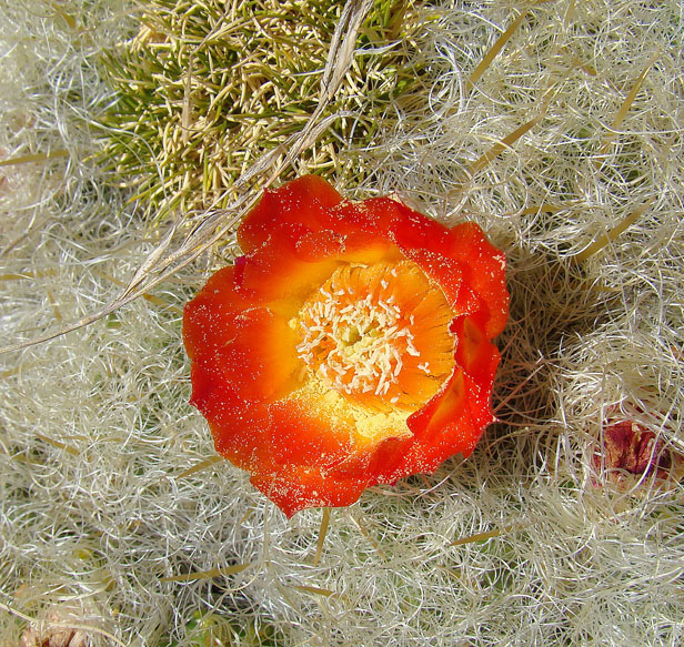 A close view of a flower from the Peruvian mat cactus. In context at